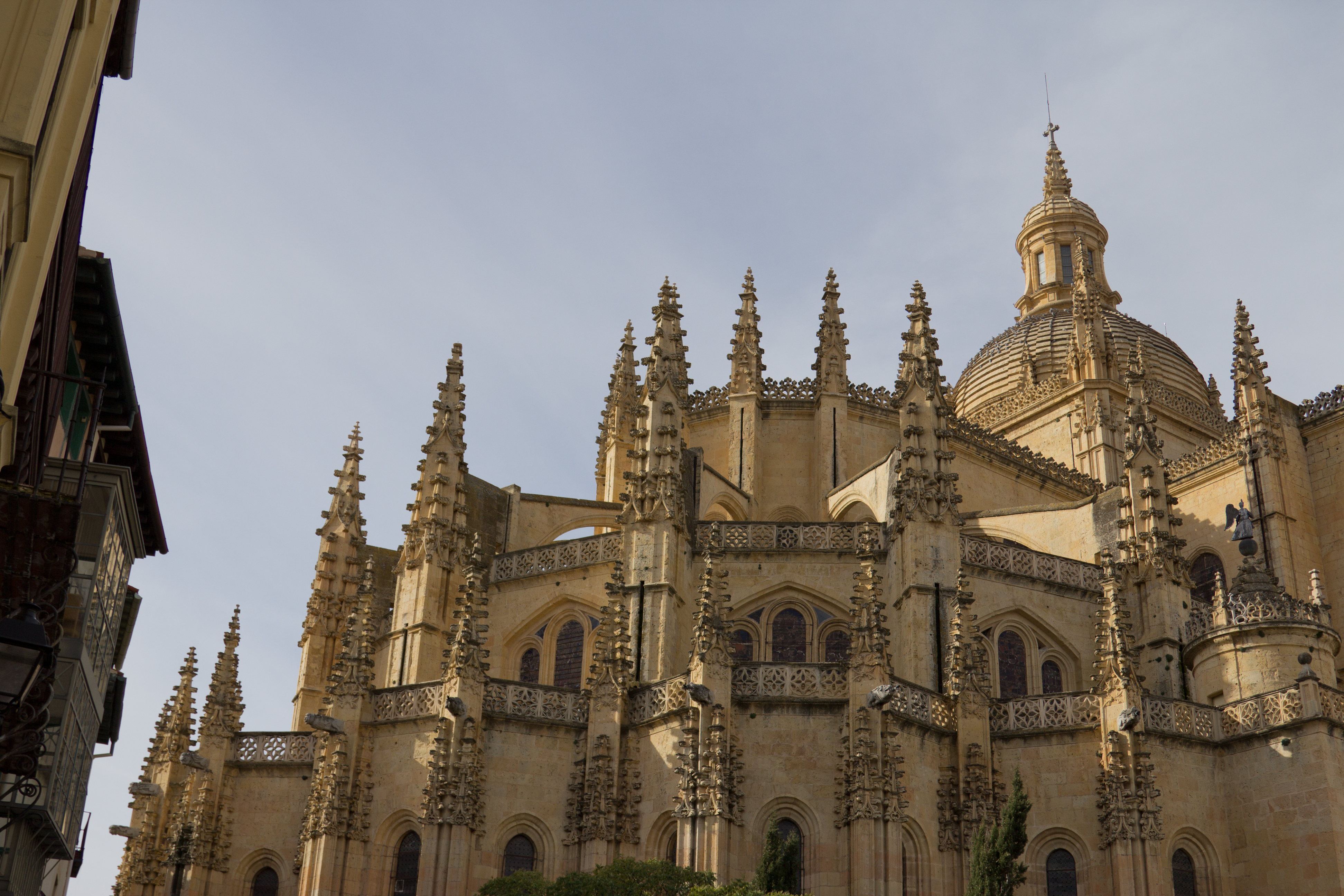 cathedral of St. Mary, Segovia, Spain.